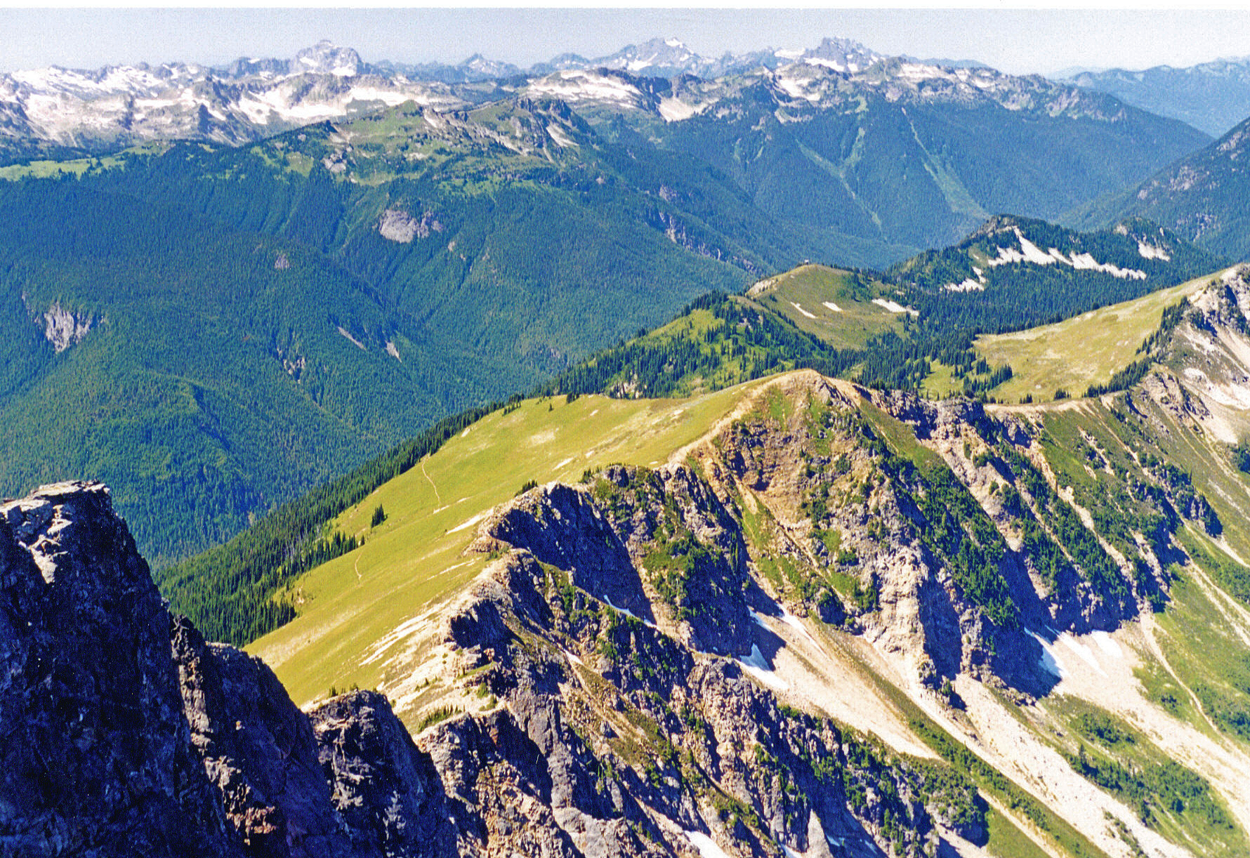 Miners Ridge in the Glacier Peak Wilderness seen from Plummer Mountain